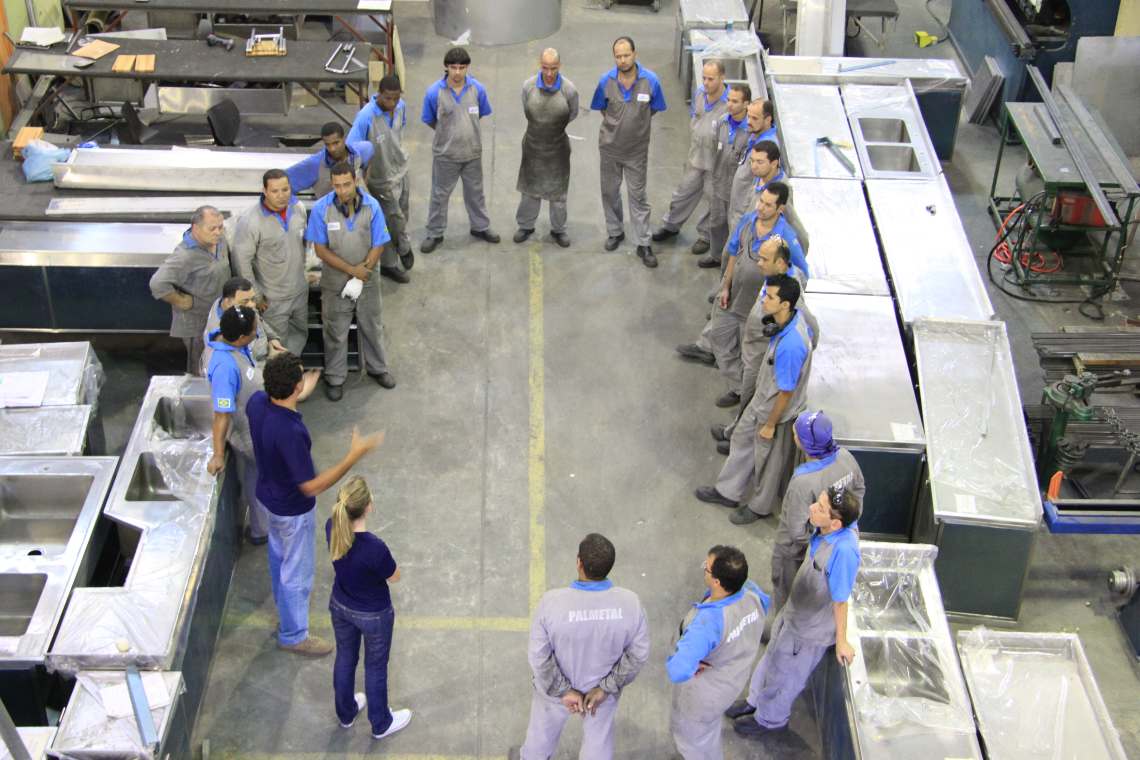 Training meeting and endomarketing in a stainless steel ecodesign company - Palmetal - from Rio de Janeiro, Brasil